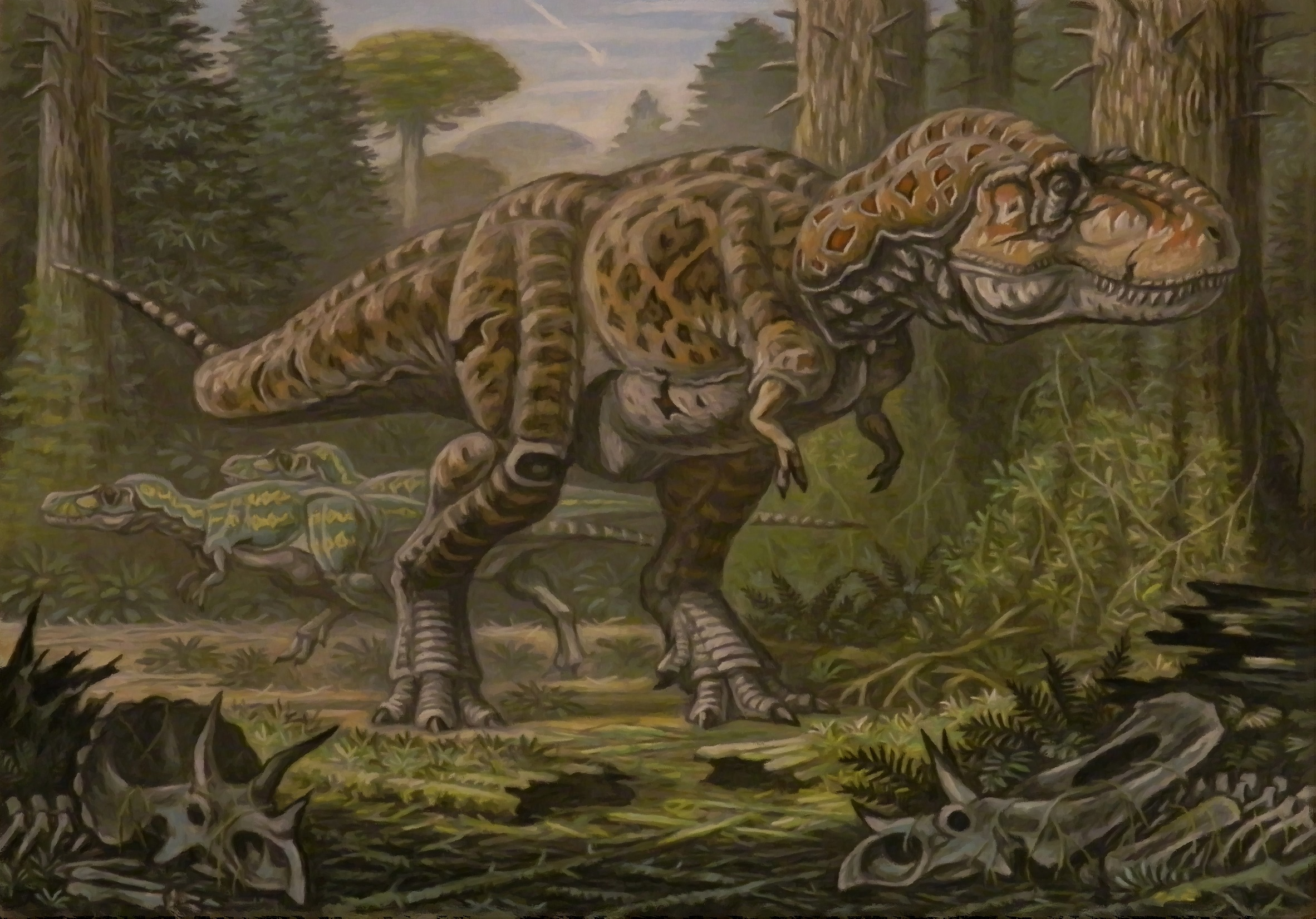 Life reconstruction of a adult & two adolescent Tyrannosaurus rex